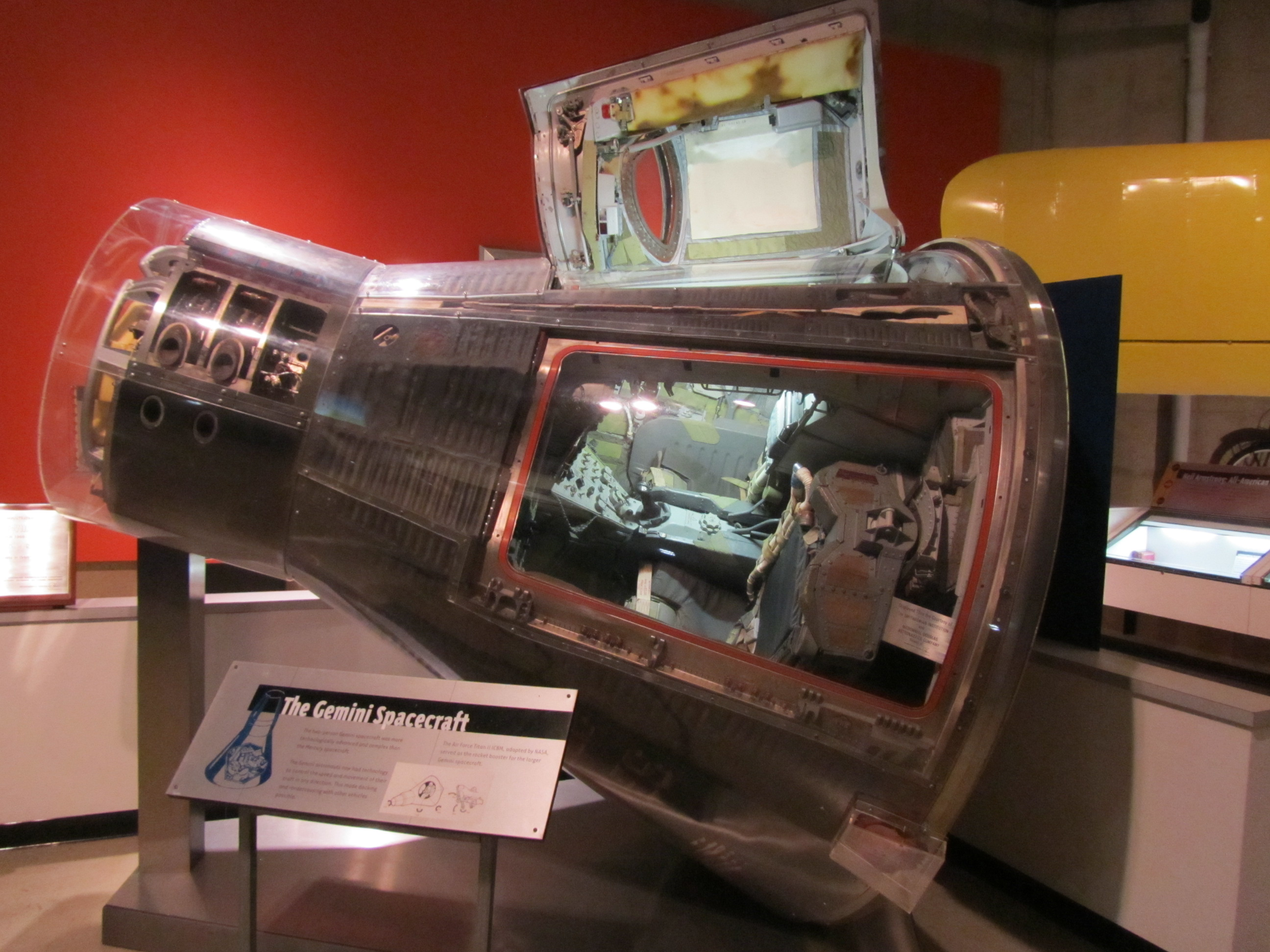 Gemini VIII the Neil Armstrong Air and Space Museum, Wapakoneta, Ohio.